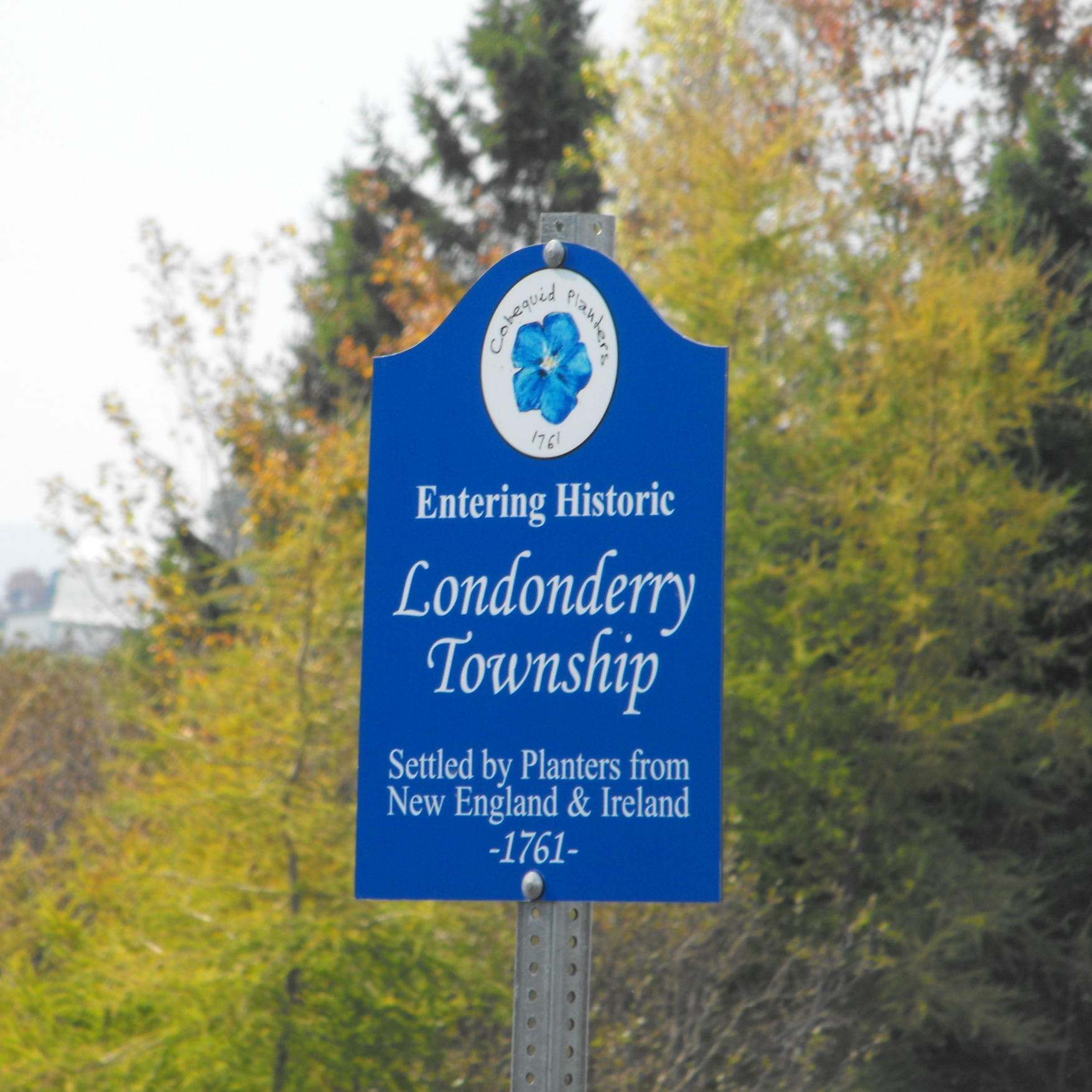 Londonderry Township marker sign, Nova Scotia